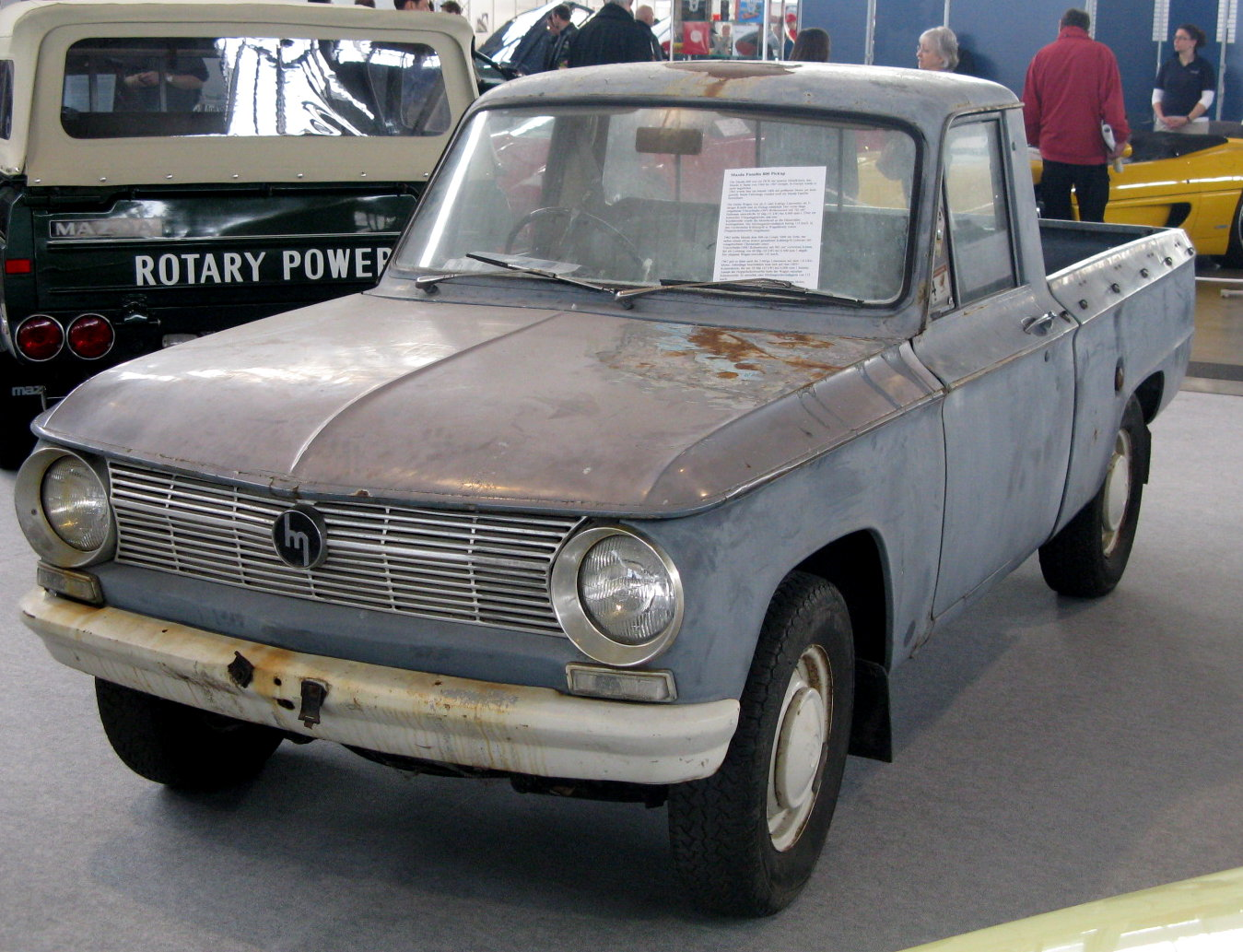 1967 Mazda Familia 800 truck